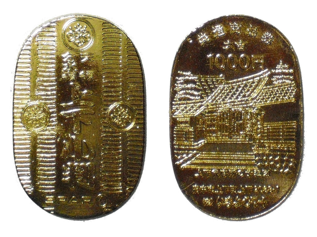 Joge_koban(gift certificate)